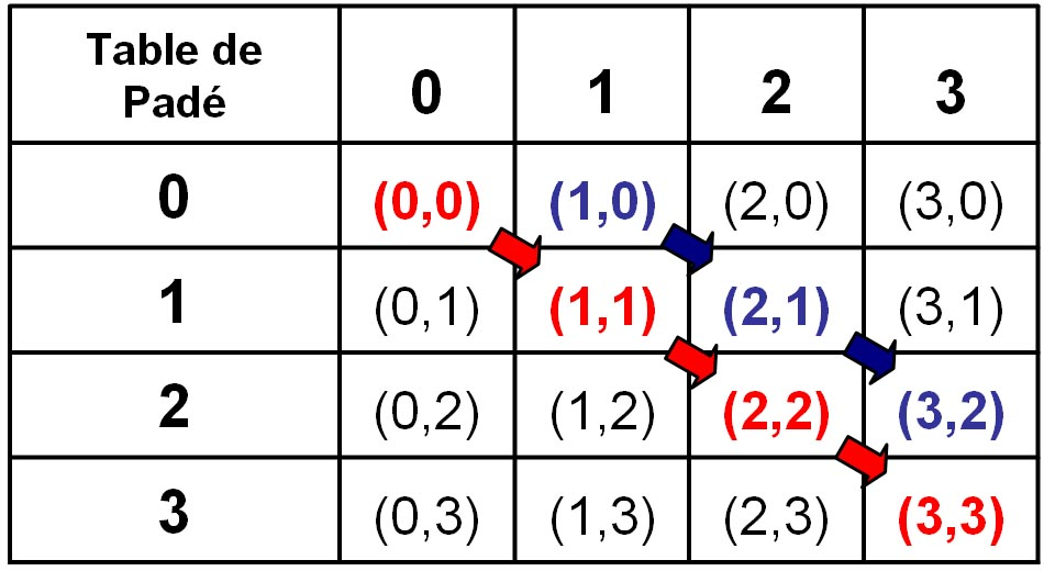 Padé table for a sequence of type 3